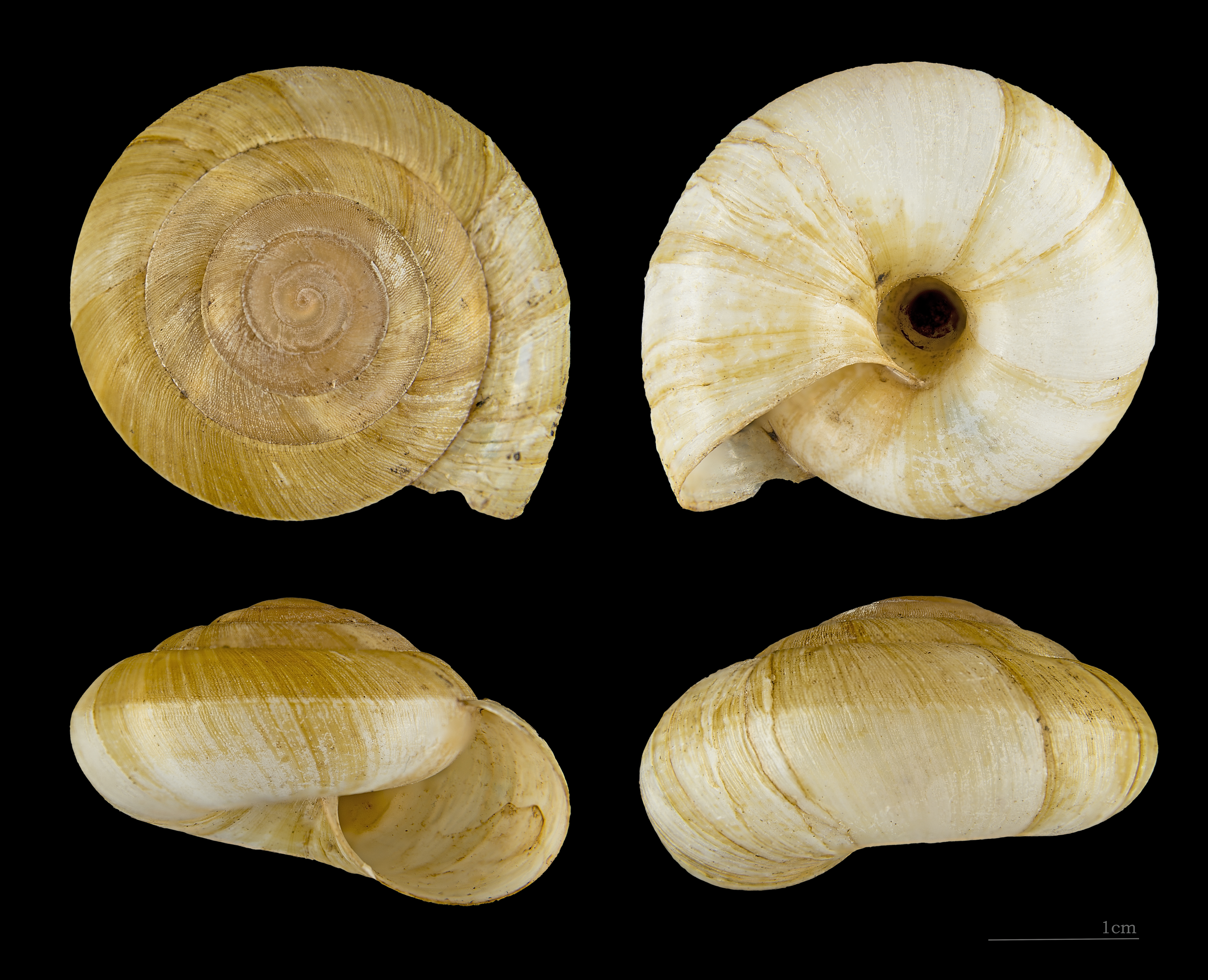 Shell of Zonites algirus .